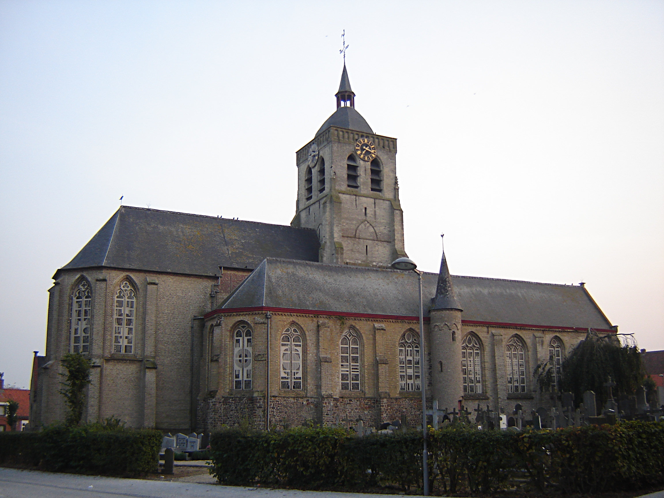 Church of Saint Victor in Proven. Proven, Poperinge, West Flanders, Belgium